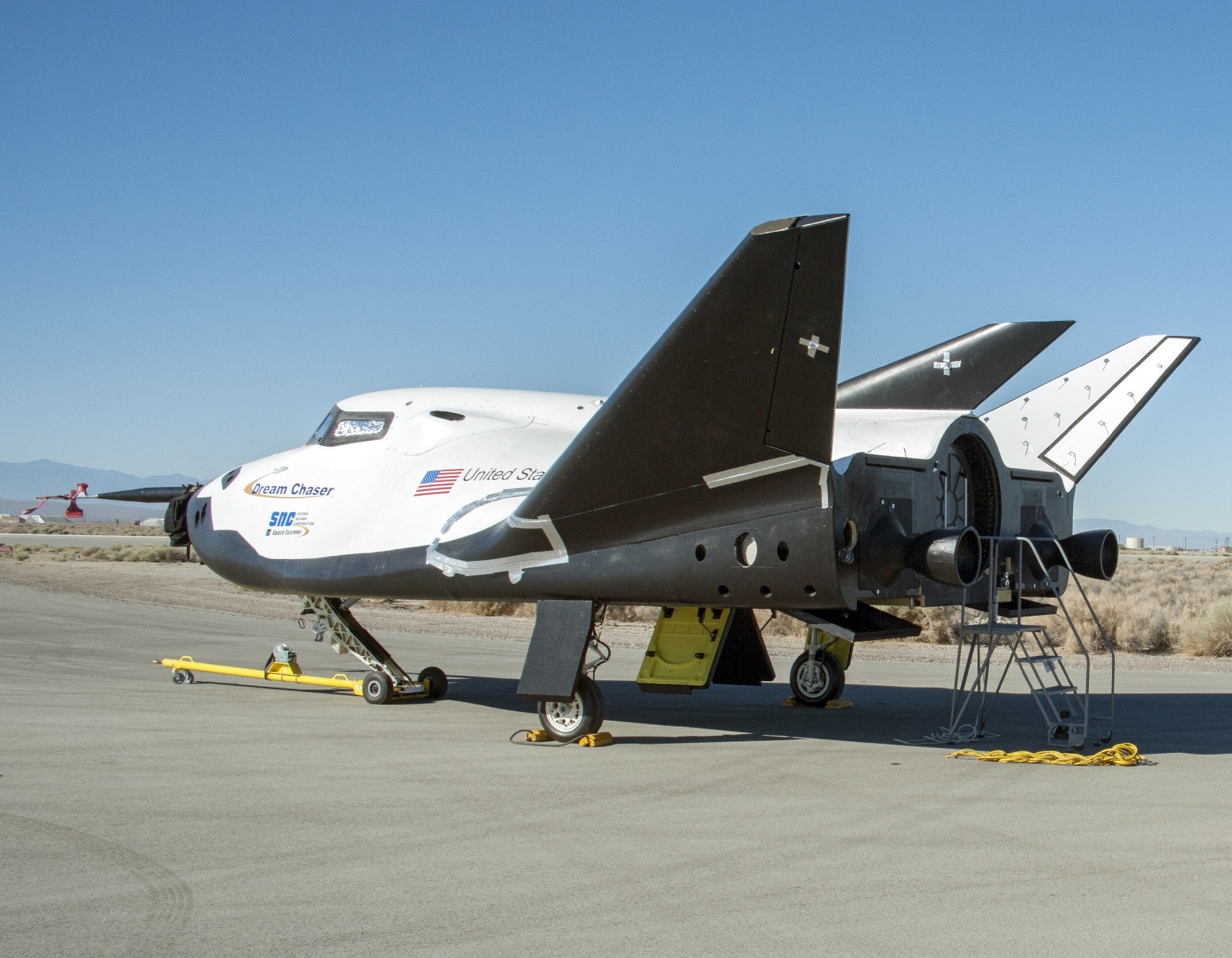 Edwards, Calif. – ED13-0215-016 - Sierra Nevada Corporation SNC Space Systems' team members prepare to tow the Dream Chaser flight vehicle along a concrete runway at NASA's Dryden Flight Research Center in California for range and taxi tow tests. The ground testing will validate the performance of the spacecraft's nose skid, brakes, tires and other systems prior to captive-carry and free-flight tests scheduled for later this year. SNC is one of three companies working with NASA's Commercial Crew Program, or CCP, during the agency's Commercial Crew Integrated Capability, or CCiCap, initiative, which is intended to lead to the availability of commercial human spaceflight services for government and commercial customers.